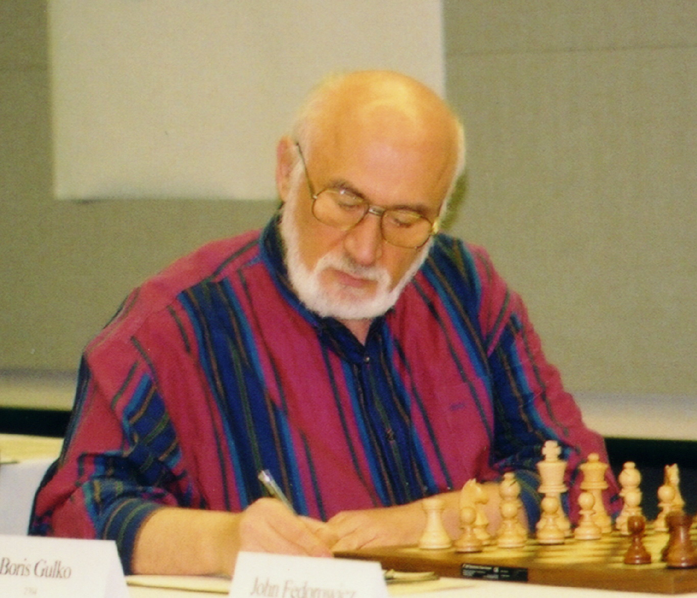 Boris Gulko at the 2002 U.S. Chess Championships in Seattle, Washington.